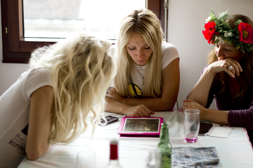 Inna Shevchenko, in Paris in july 2012.